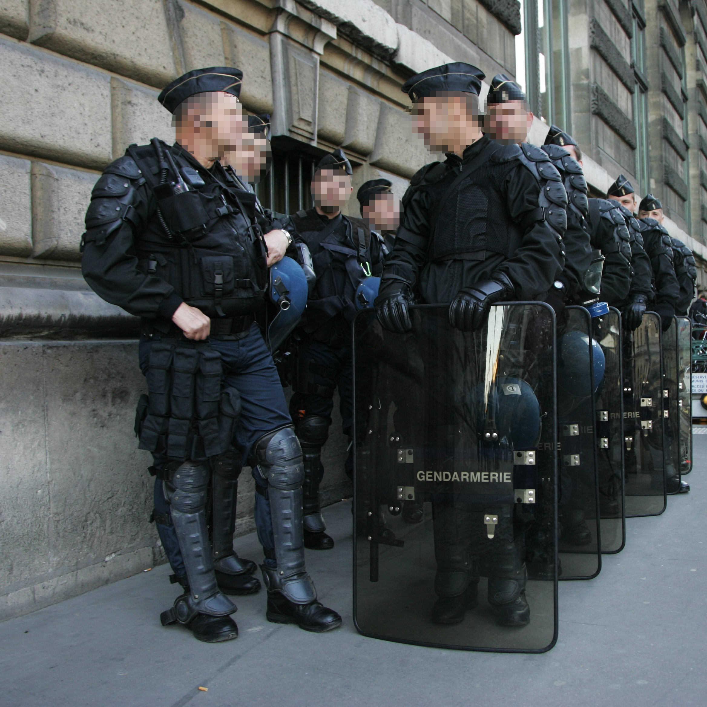 Demonstration against the Hortefeux law. Paris, 20th of October 2007.